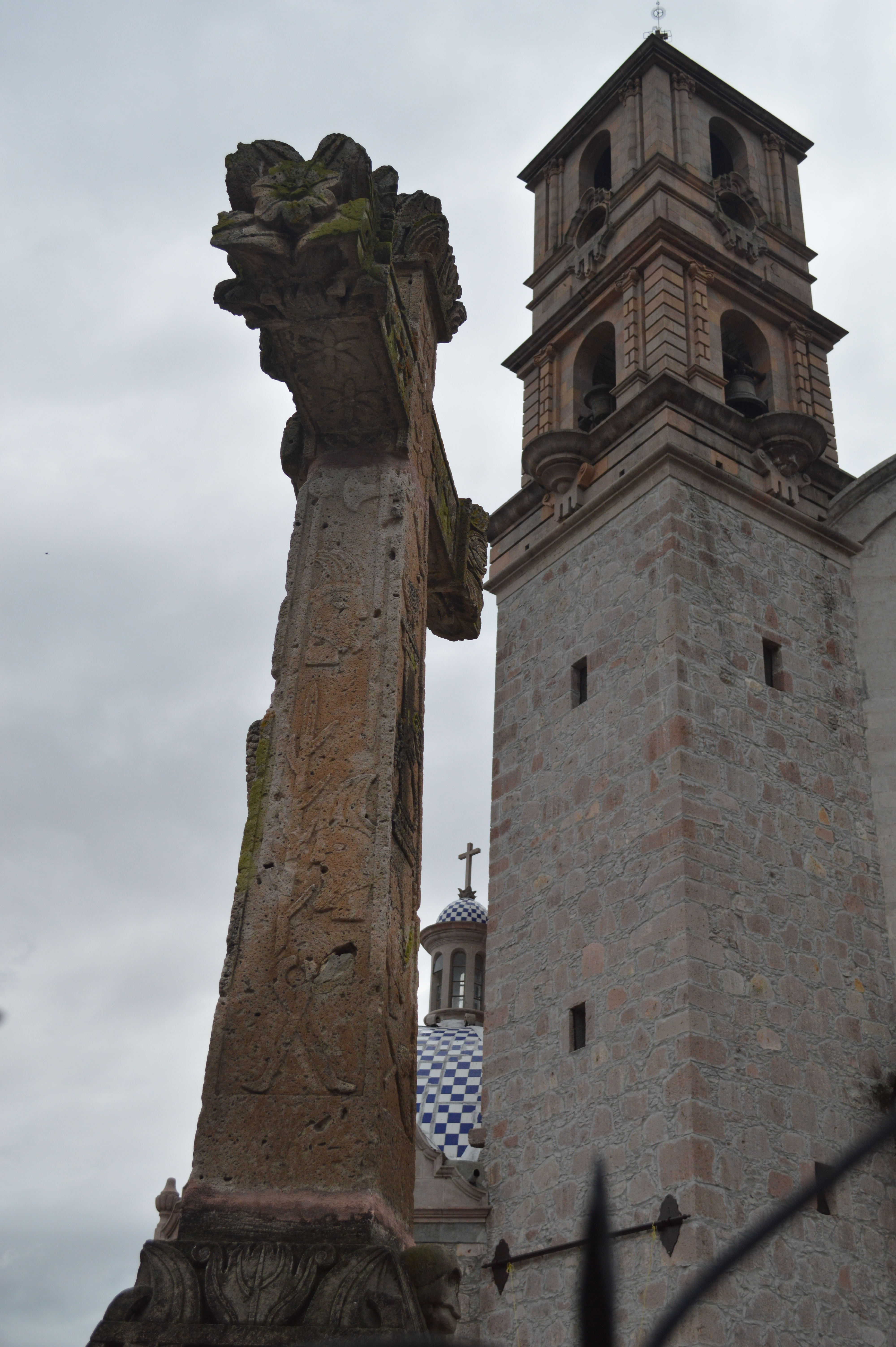 Colonial era atrium cross of the San Jeronomo Church and the belltower of the Señor del Amparo Church in Huandacareo, Michoacan